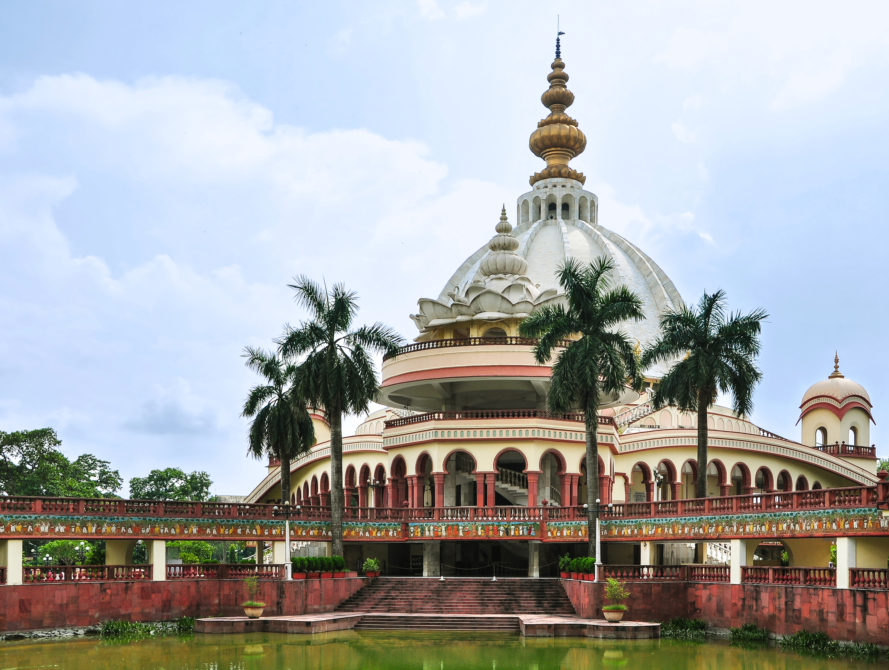 Samadhi Mandir of Srila Prabhupada (back side) at ISKCON, Mayapur, West Bengal, India.